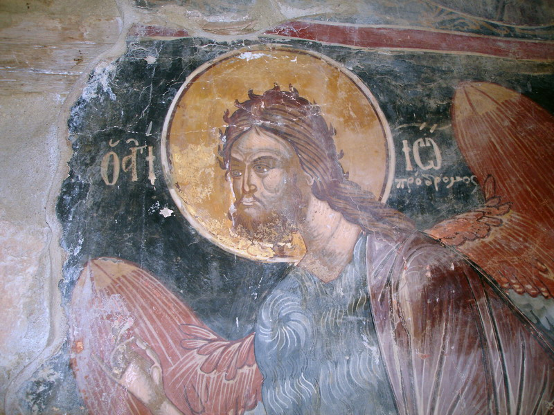 Frourio St Demetrius Church Fresco